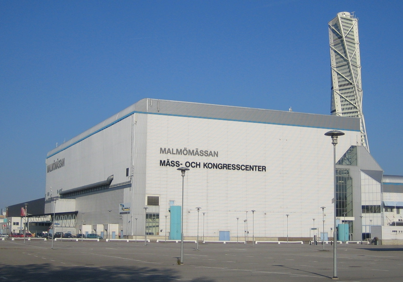 The Malmö Exhibition & Convention Center